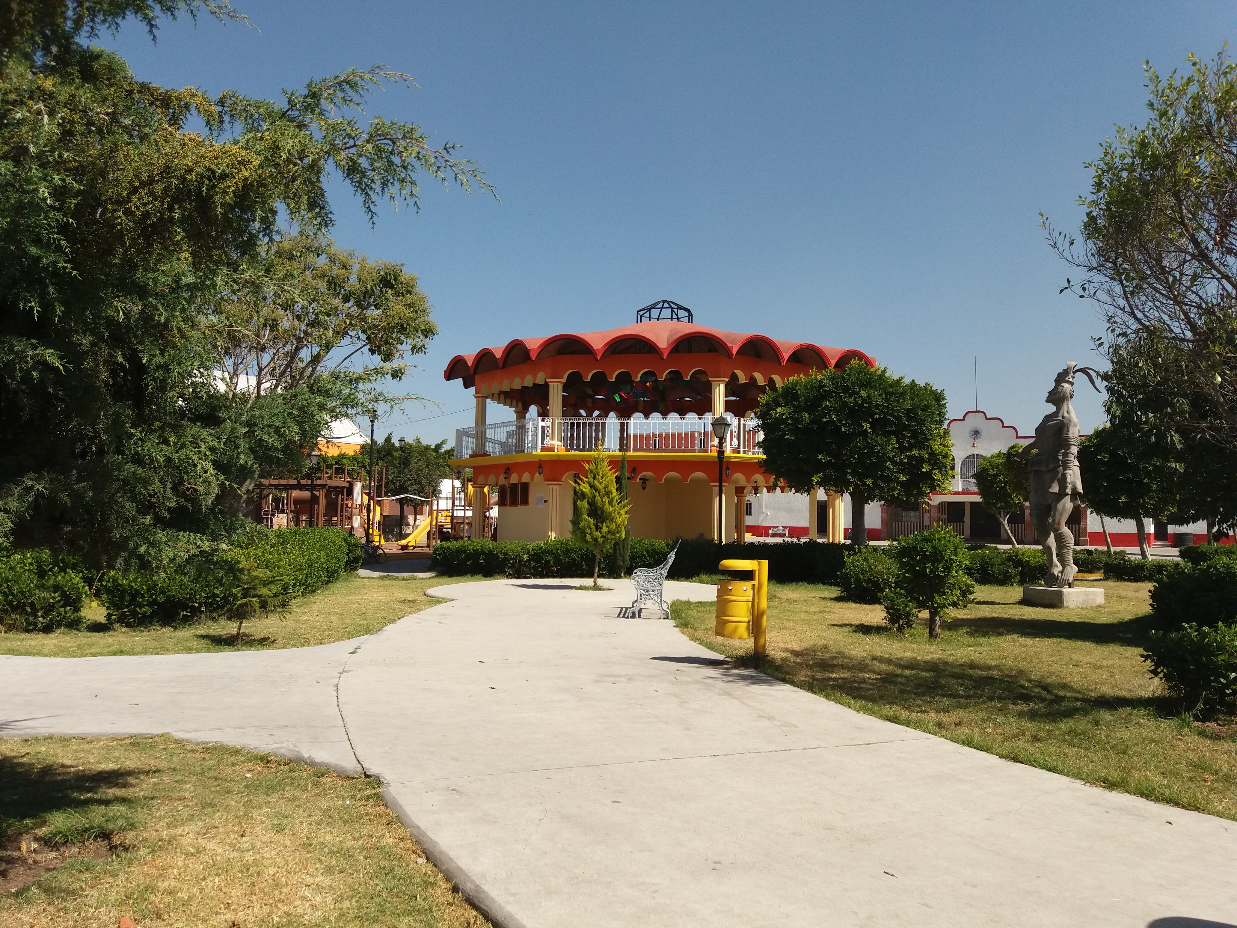 Kisoko from Tocuila (2017)